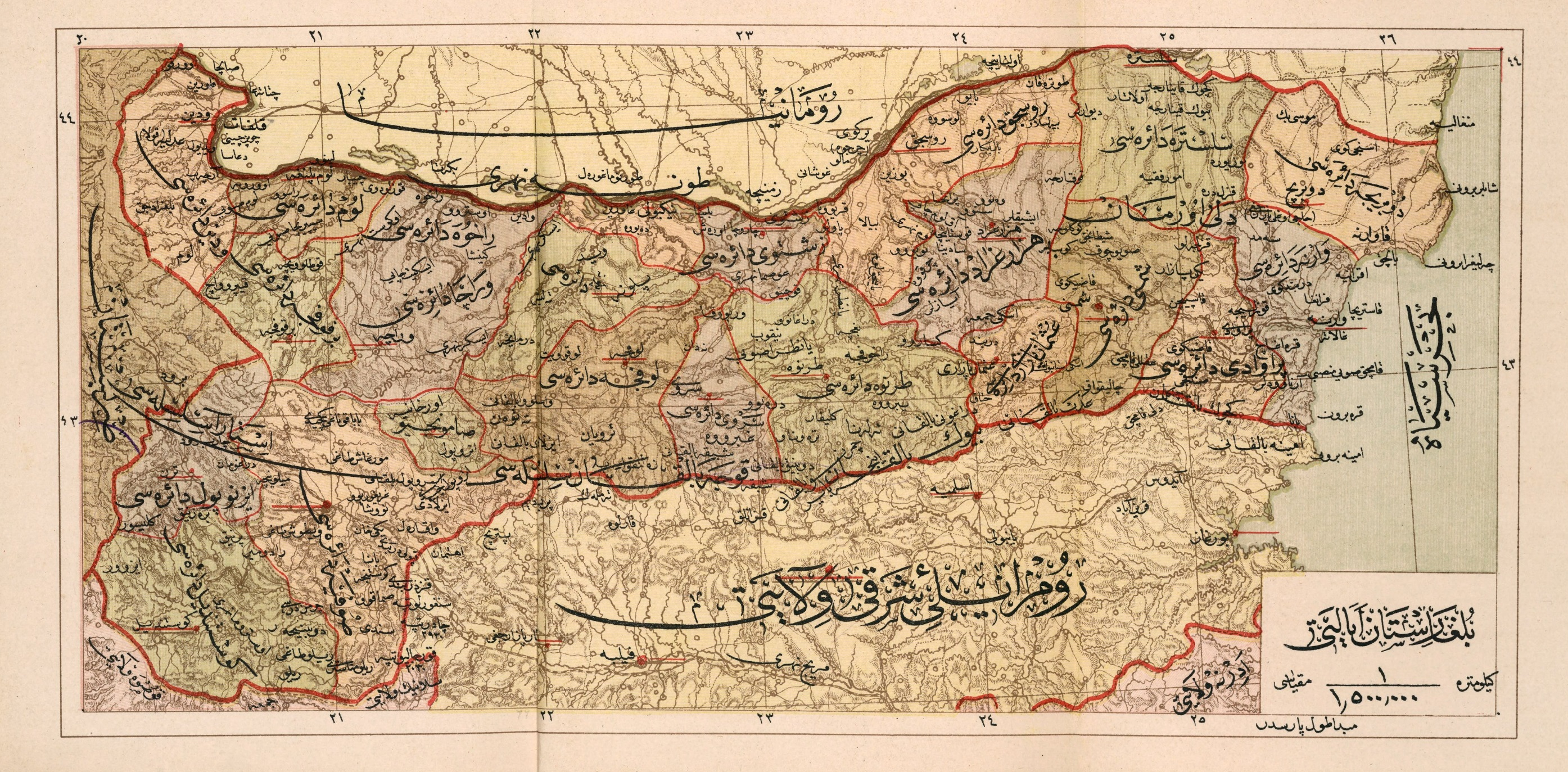 Bulgaria Eyalet — Memalik-i Mahruse-i Şahaneye Mahsus Mukemmel ve Mufassal Atlas (1907)